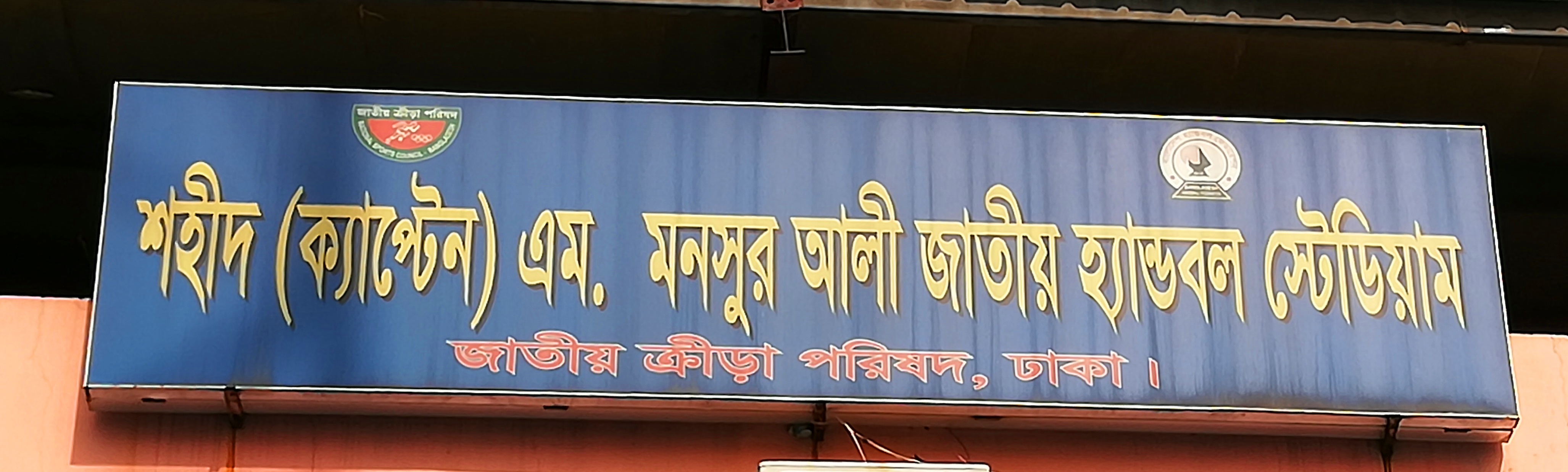 Nameplate of Shaheed Captain Mansur Ali National Handball Stadium